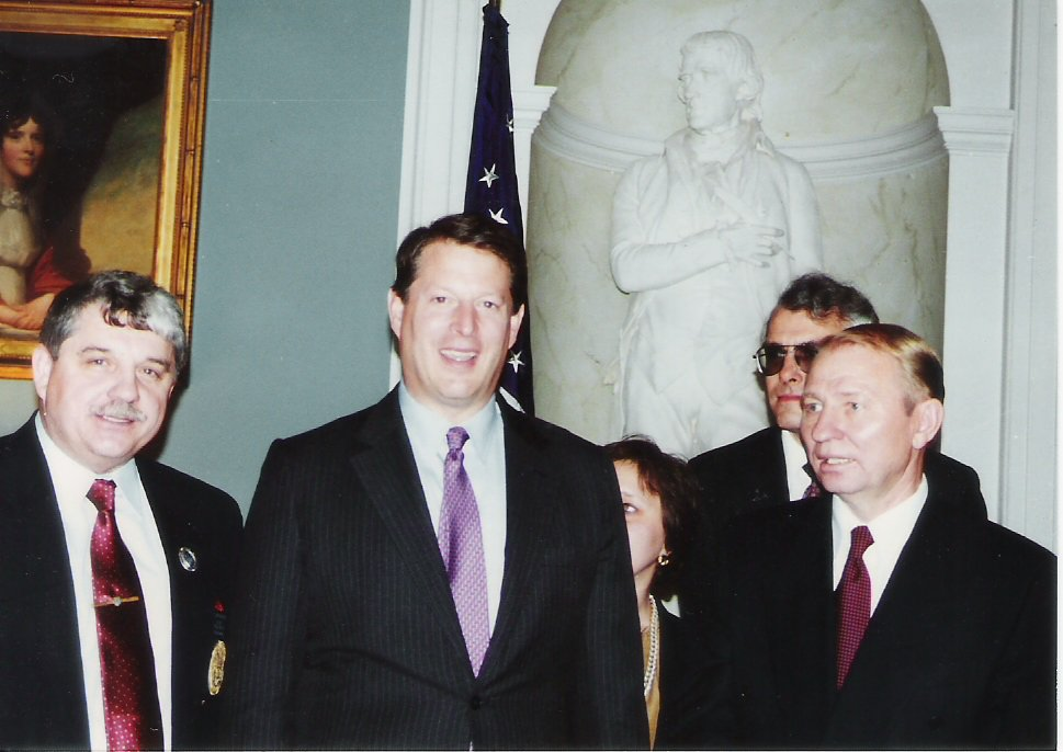 Ukrainian American Veterans National Commander Miroslaus Malaniak (left) met with Vice President Al Gore and Ukraine President Leonid Kuchma at the White House in Washington DC on November 22, 1994.